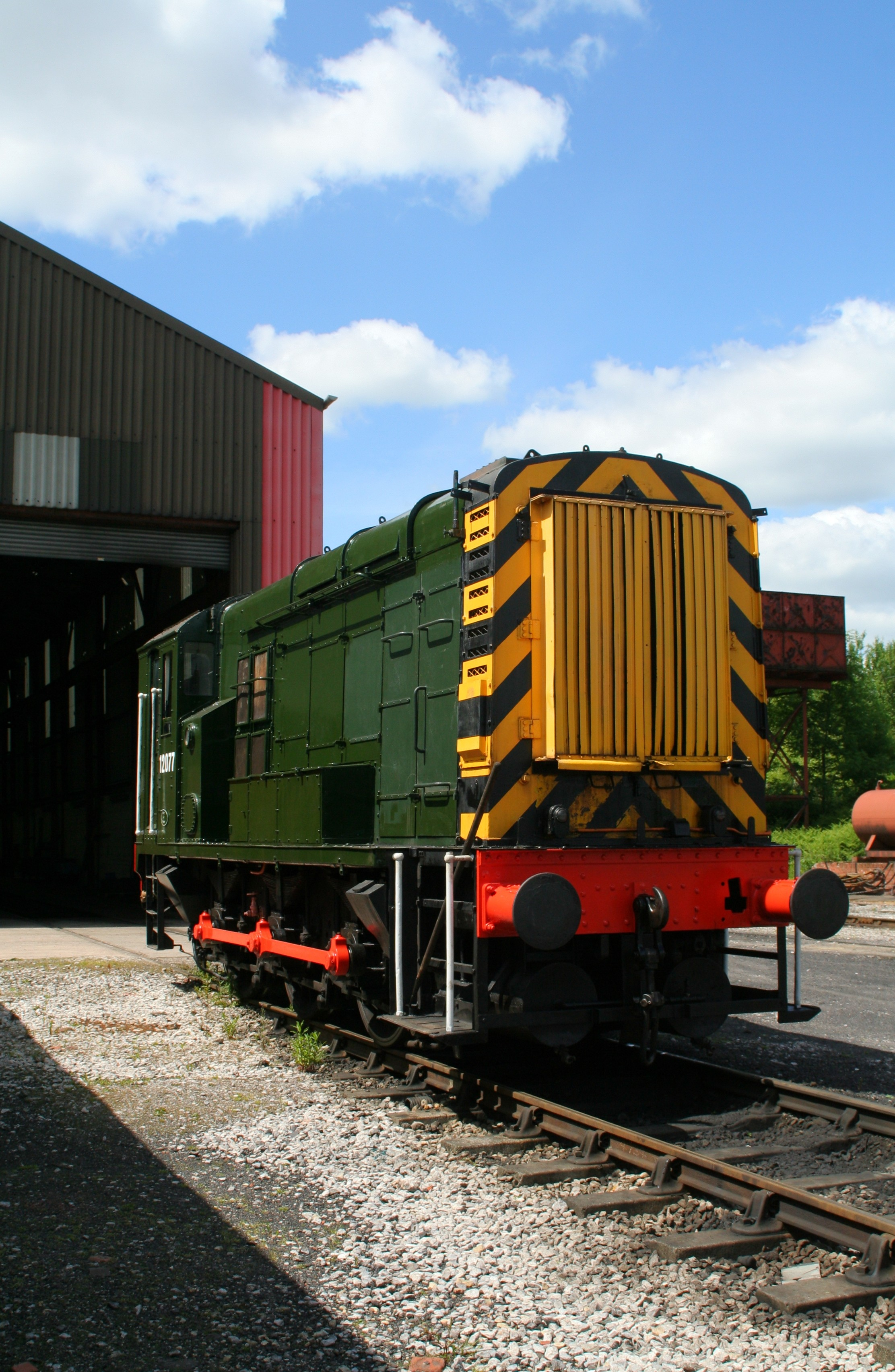 I think this is 12077, a Class 11 shunter.